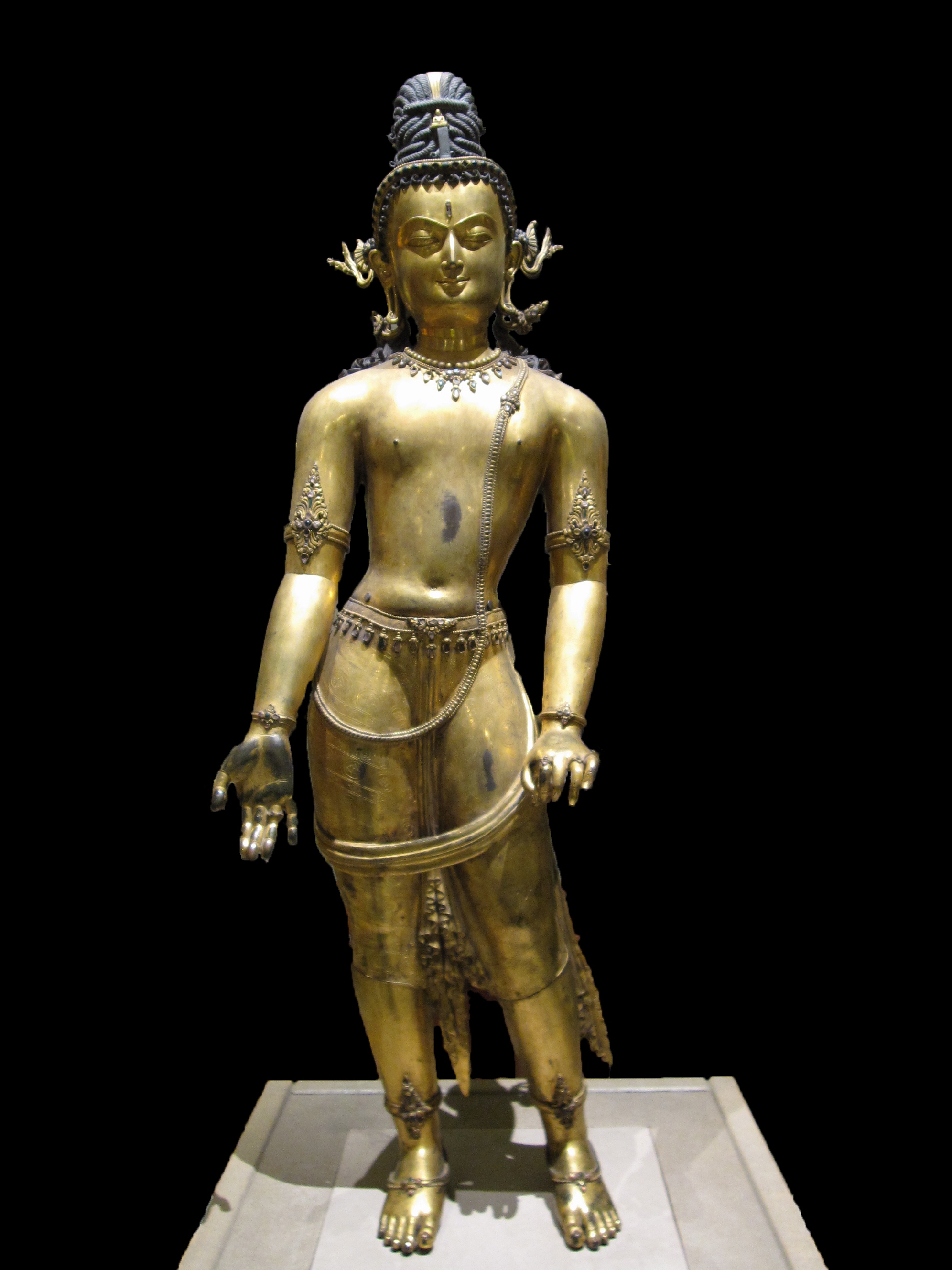 The Bodhisattva Avalokiteshvara, gilded bronze. Nepal, 16th century CE. OA 1880.84. British Museum.